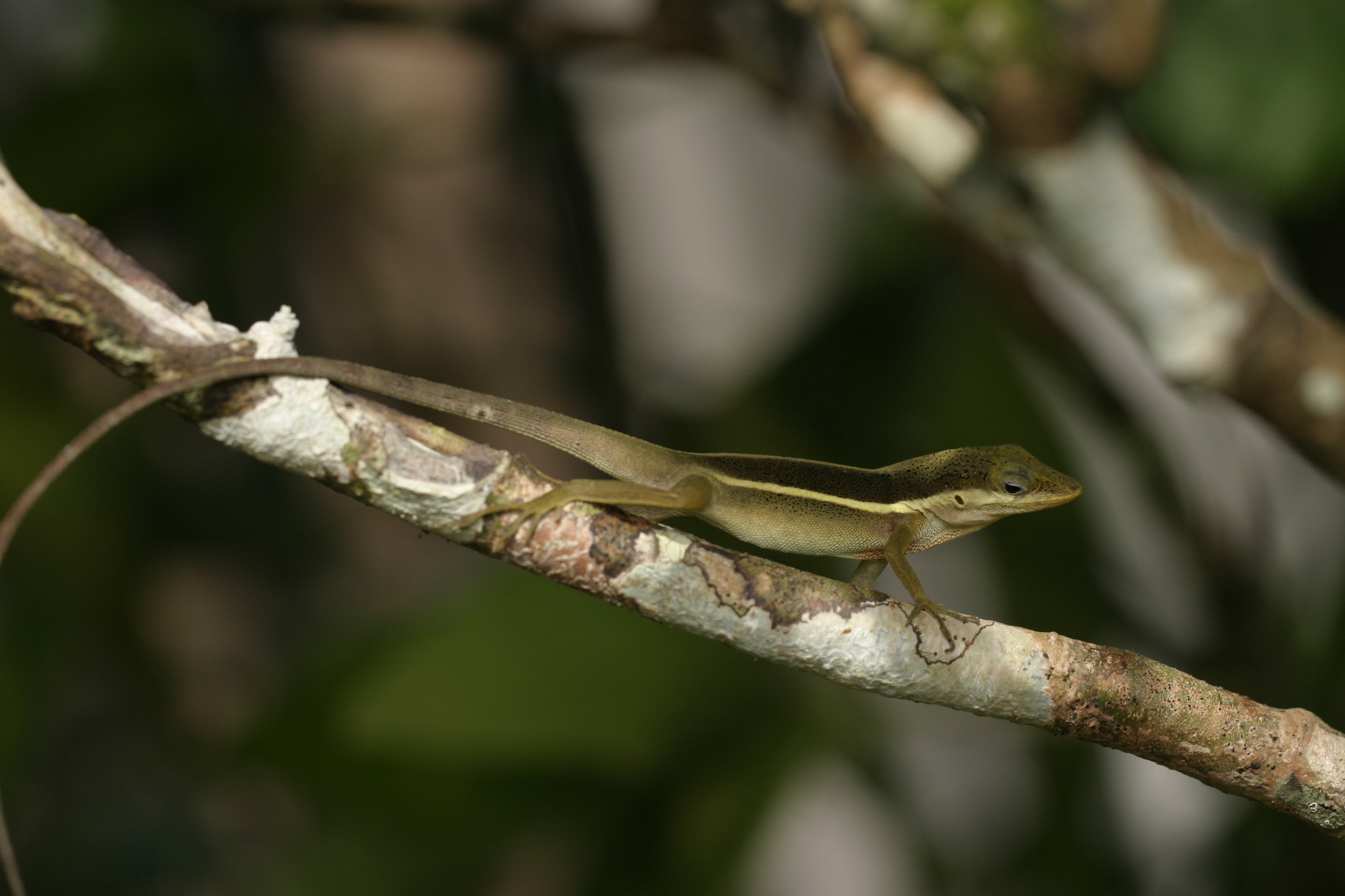 Anolis krugi on twig